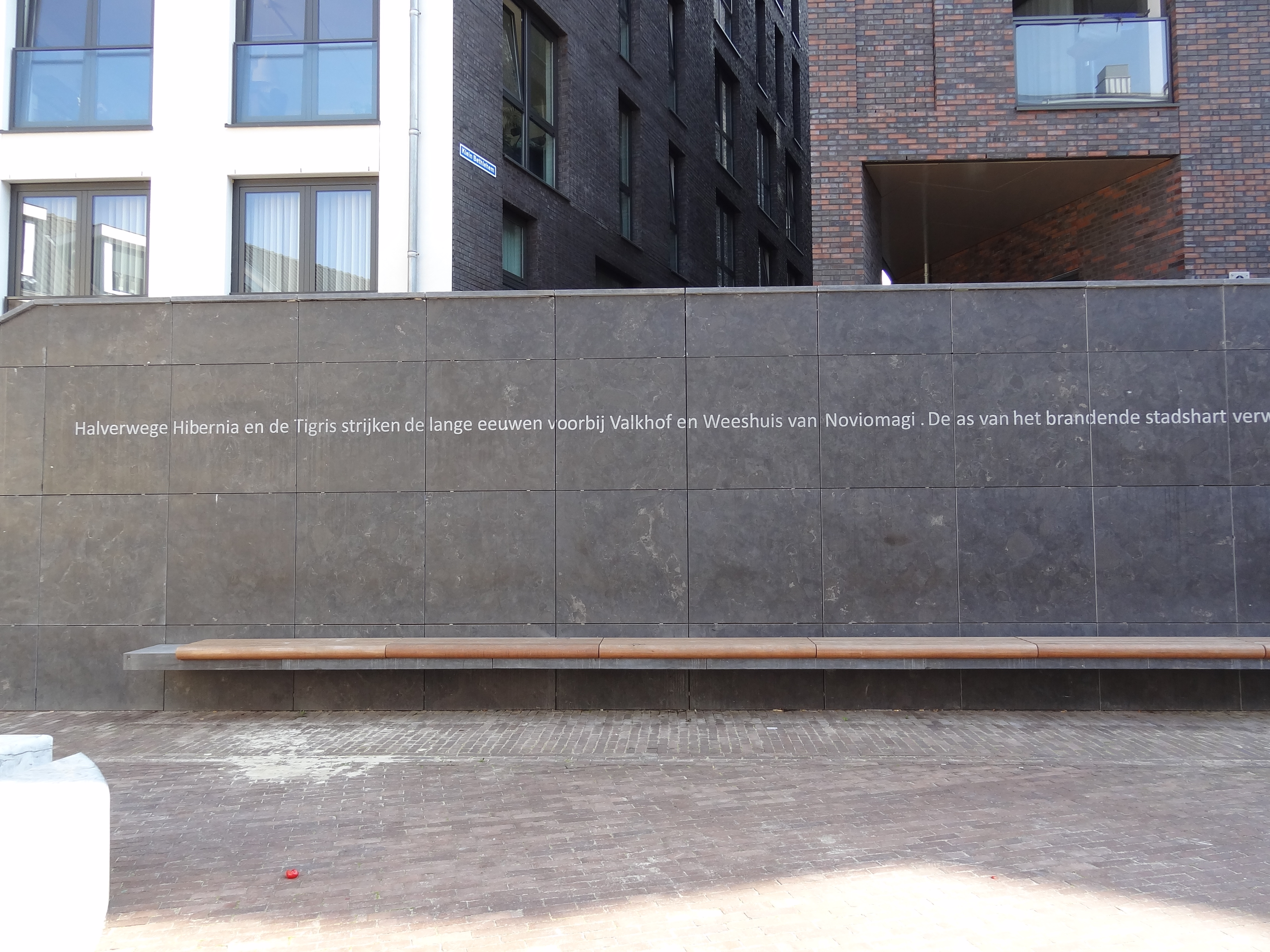 Poem by H.H. ter Balkt at the Gebroeders Van Limburgplein in Nijmegen, The Netherlands